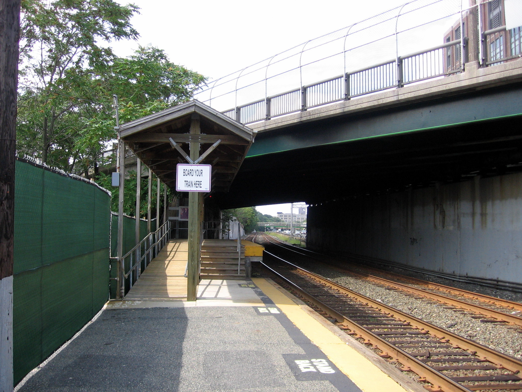 The platform at Yawkey (before reconstruction) was mostly low, with a short length of high platform for the inbound track only.